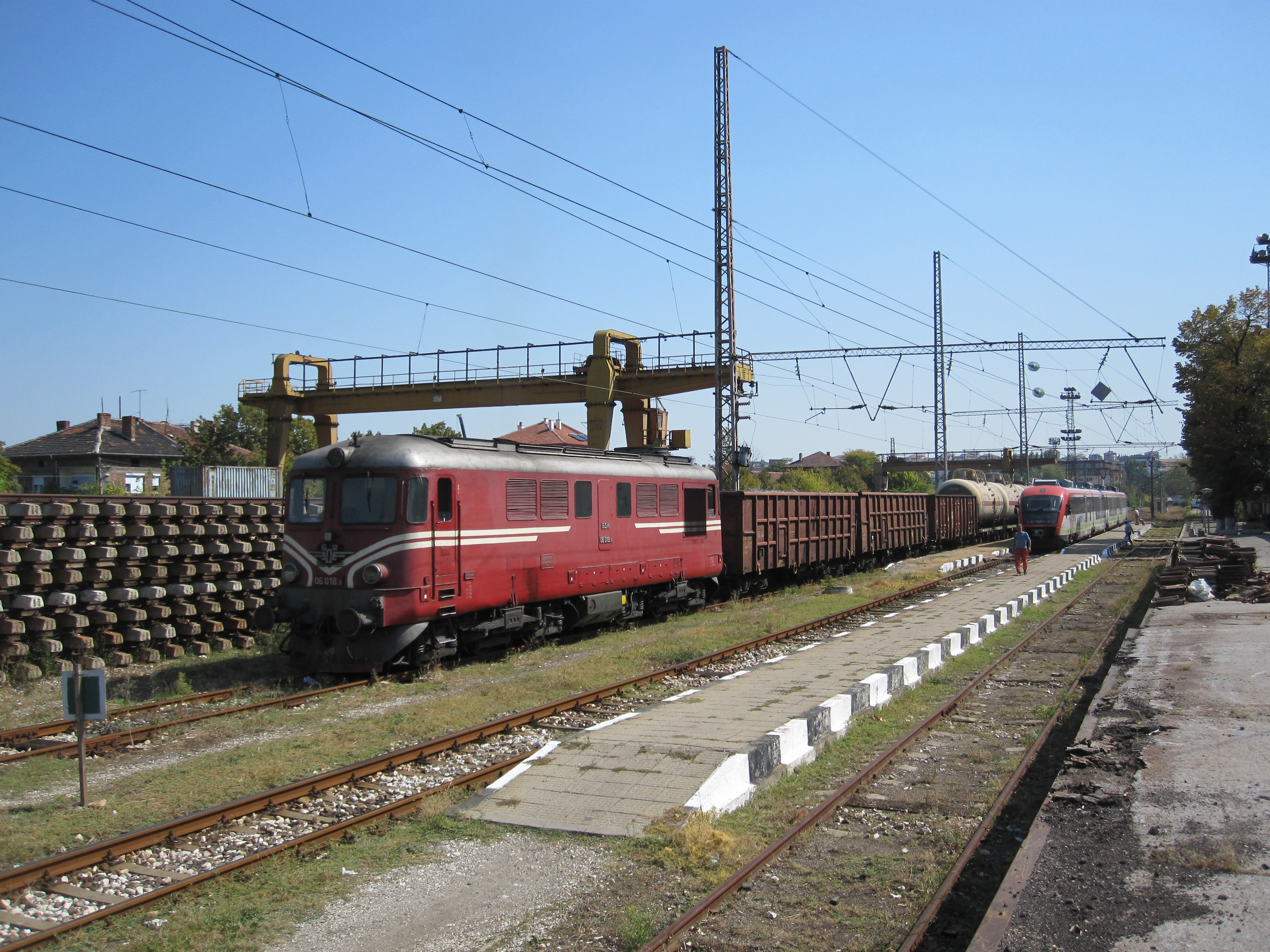 Bulgaria Trip Day Four. The Asenovgrad branch boasts the most frequent service operated by BDZ. With a 22-23 minute journey time from Plovdiv, this fits in neatly to form a "clockface" interval service almost every hour throughout the day. To the right is Desiro EMU 31015 on train 19216, 13:00 Asenovgrad to Plovdiv. During the short turnaround time there was just enough time to snatch a photo of 06018 on a freight which would need to follow the passenger train down the single track branch soon after. Class 06s are another Romanian import again from the Electroputere works in Craiova. With their distinctive sound from the twin-bank cylinder Sulzer 12LDA28 diesel engines, they are identical to class 62s in Romania. With sectorisation of the BDZ fleet Class 06s are now all allocated to freight. However they were once found on passenger trains again needing a heating van. Date of photo: 27 September 2012